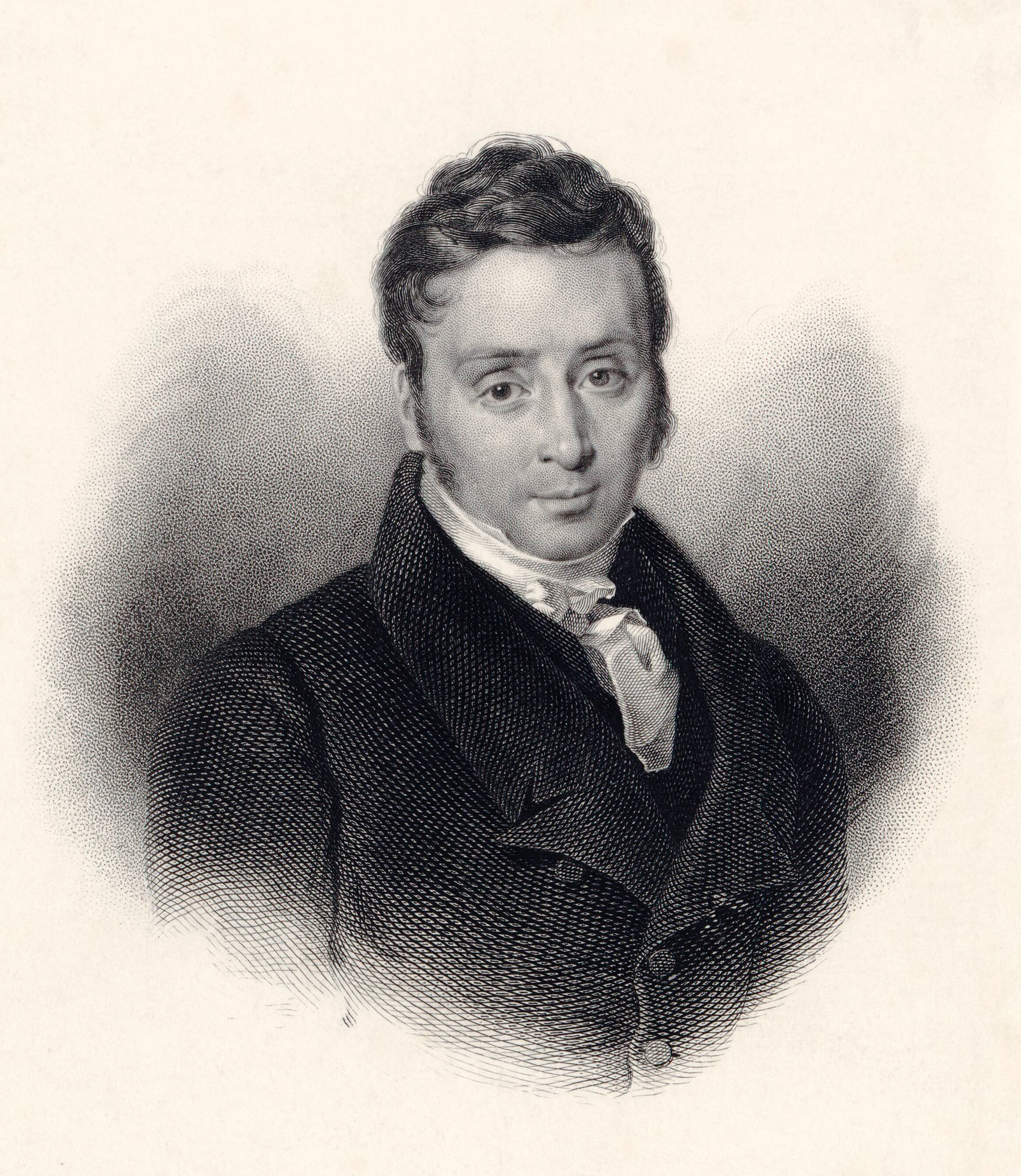 French musician Guillaume-Louis Bocquillon, a.k.a. Wilhem or Bocquillon-Wilhem (1781-1842).